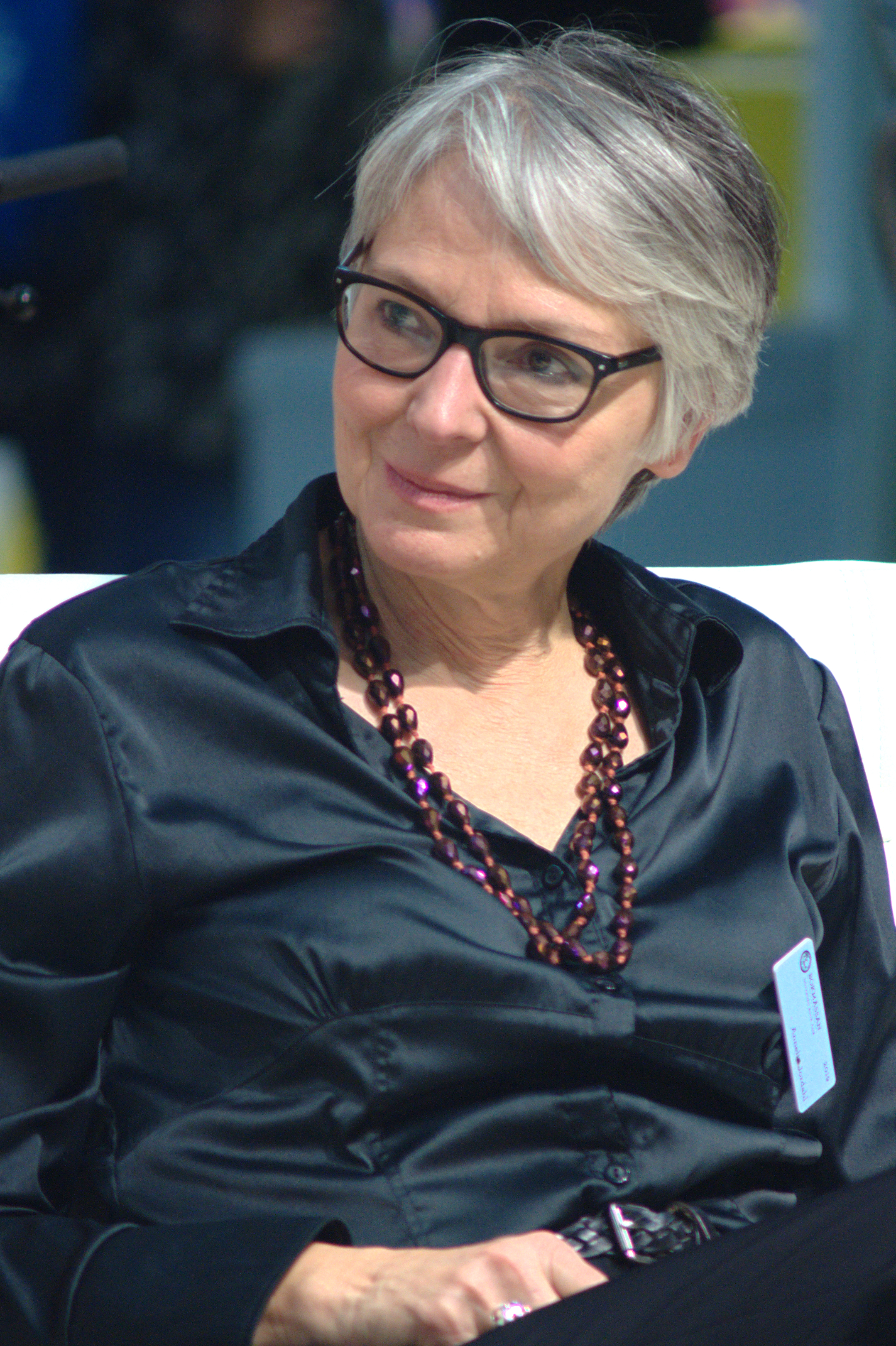 Anneli Jordahl, Swedish author and journalist, at Göteborg Book Fair 2019.